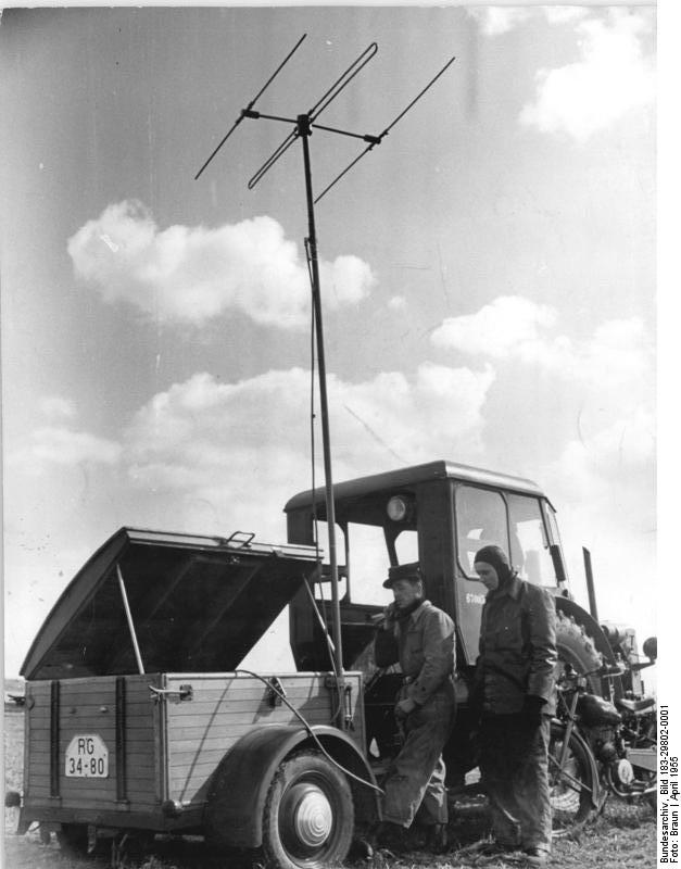 Mobile Ukw radio telephone unit in the Mts Strehla district, Dresden, Germany, 1955. The Ukw system apparently allowed central despatchers to keep in touch with field agents working in rural areas with farmers. (summary of machine translation of caption. Need better translation)